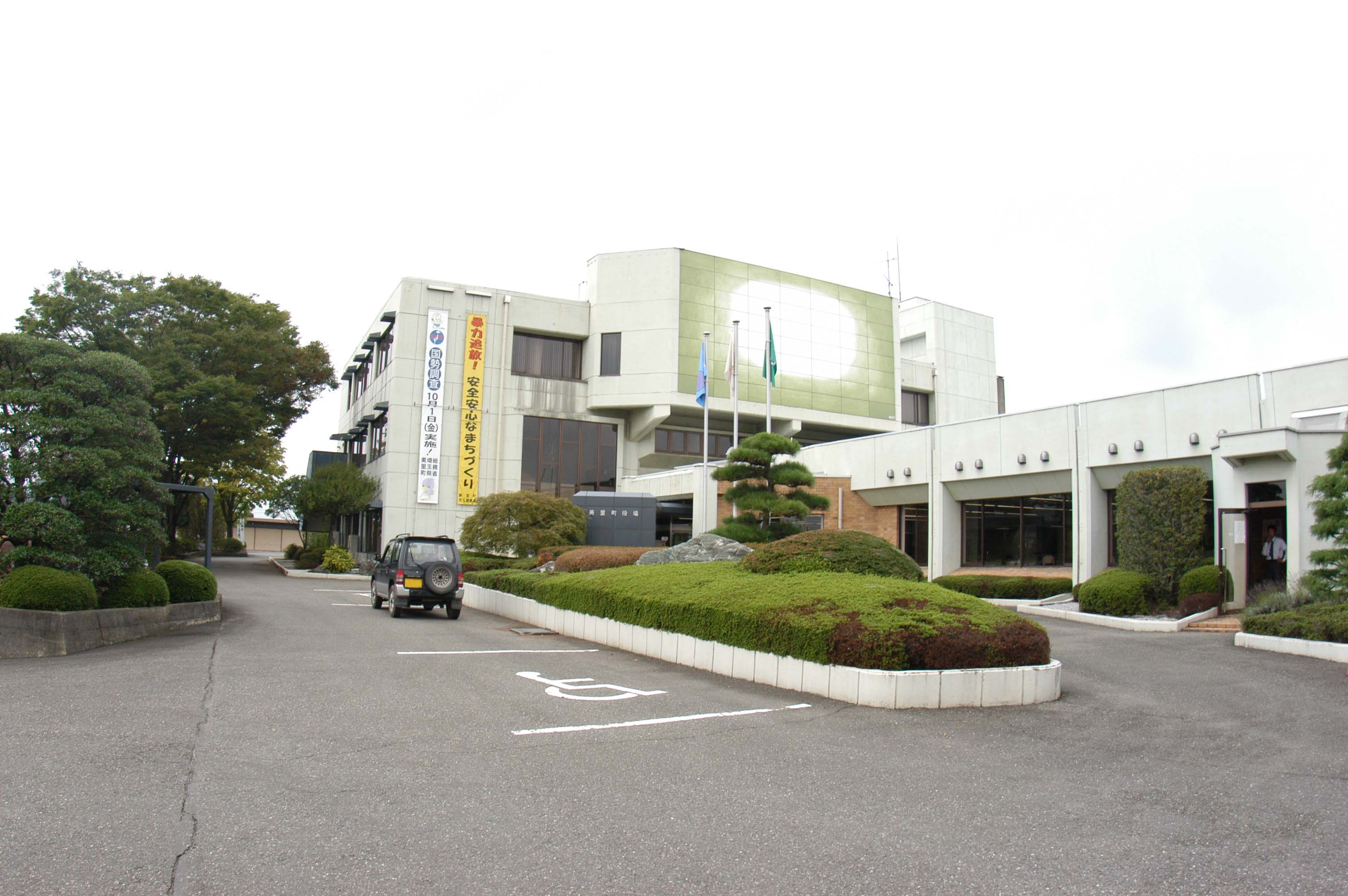 Misato Town Hall, Misato Town, Saitama, Japan